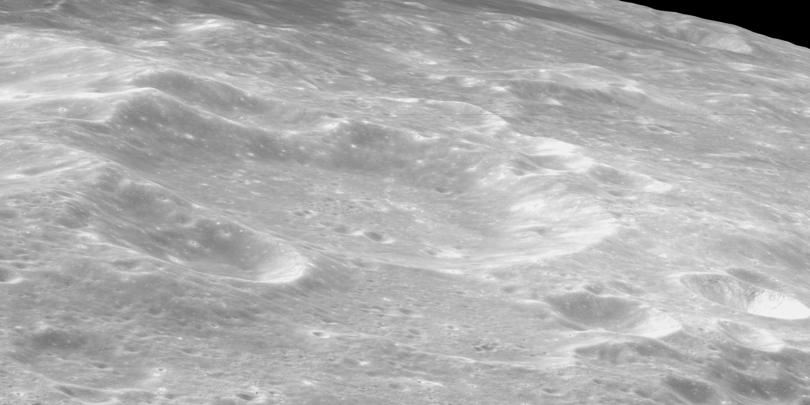 Oblique view of Purkyně crater, facing west, on the moon. Taken by Apollo 17 panoramic camera.